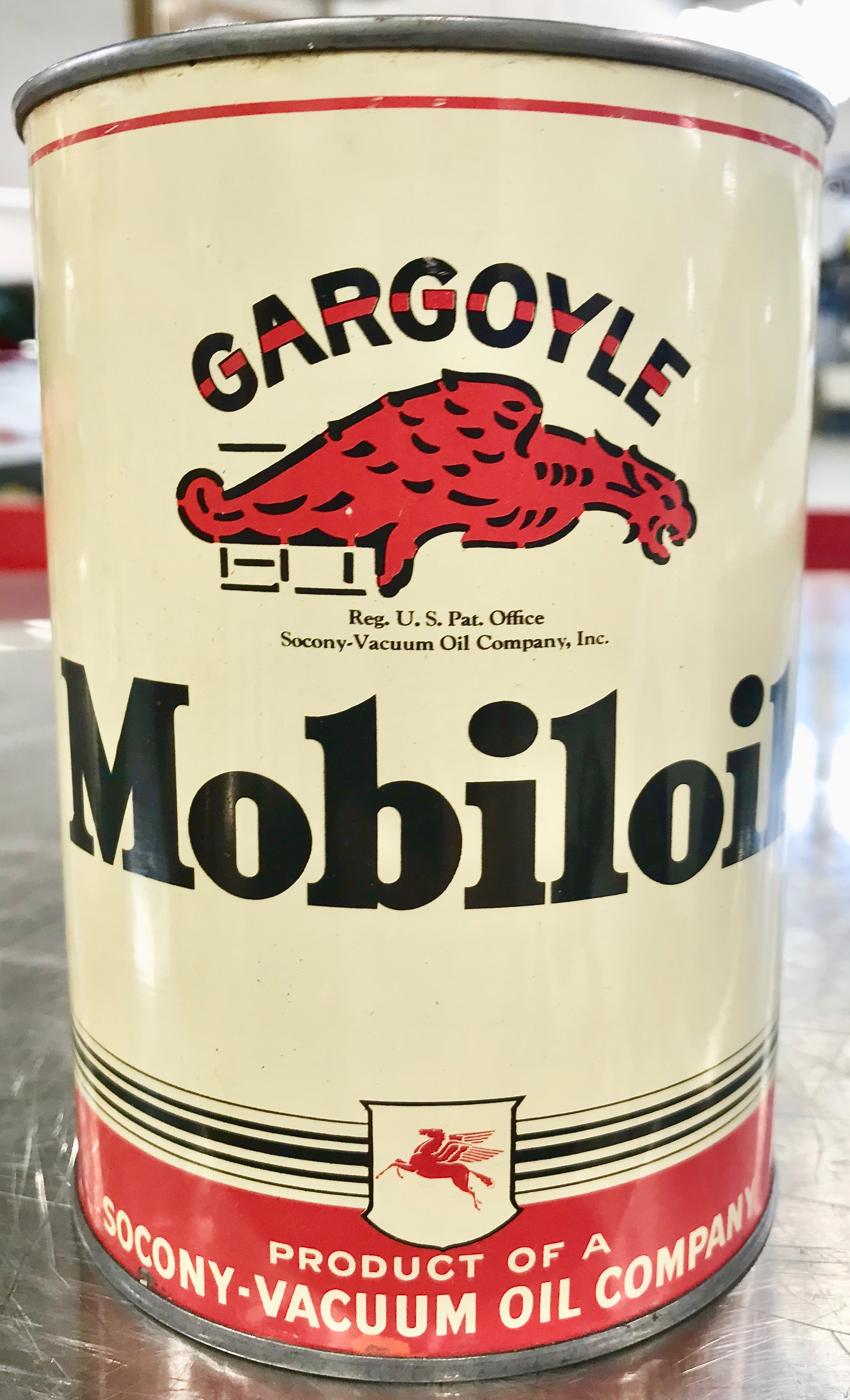 1940 Mobiloil Gargoyle Oil was used in early automatic transmissions and fluid couplings